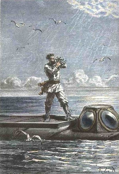 Captain Nemo on deck of Nautilus